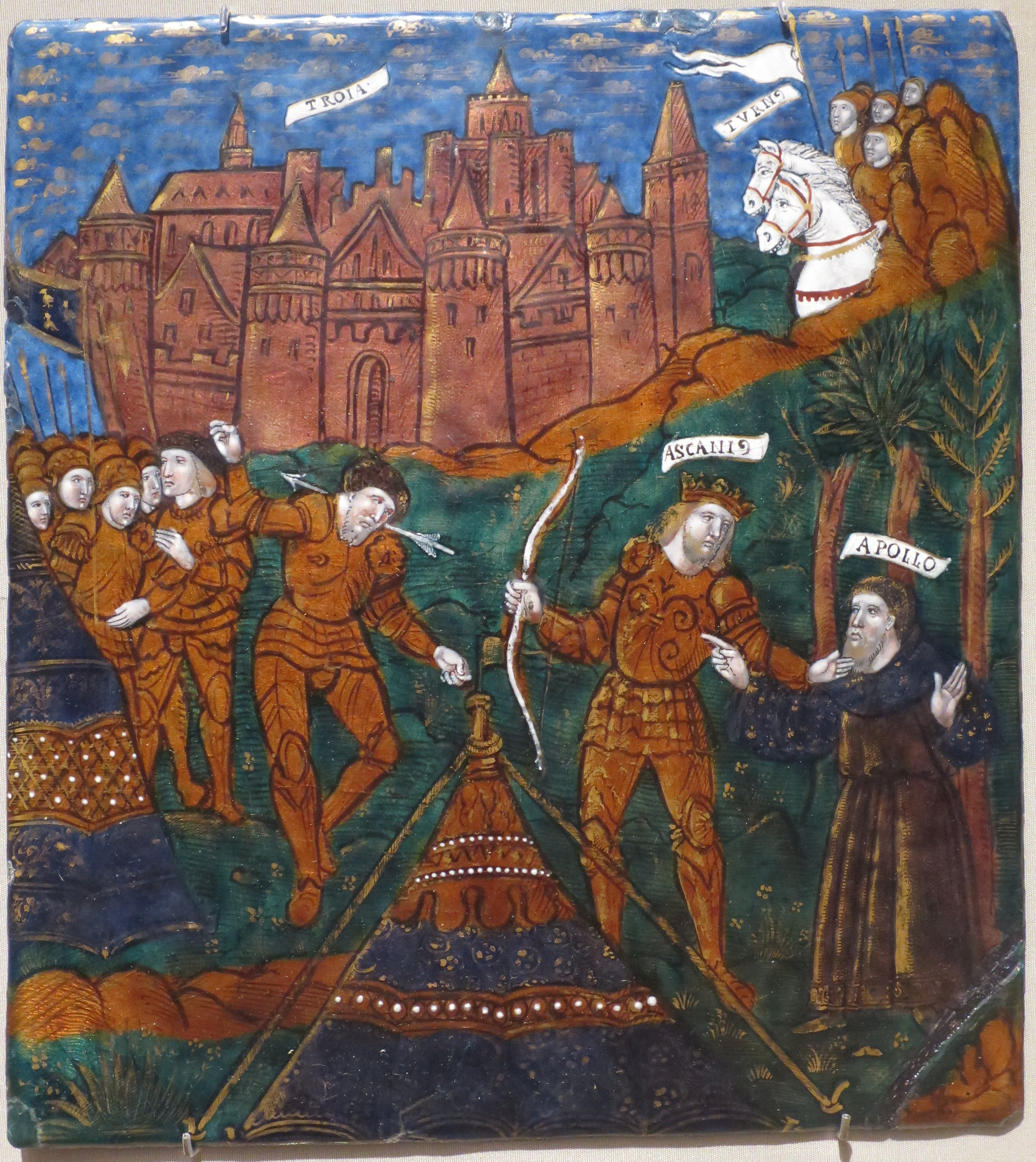 Ascanius Kills Numarius Numanus before Troy by the Master of the Aeneid, 1525-1530, enamel on copper, California Palace of the Legion of Honor